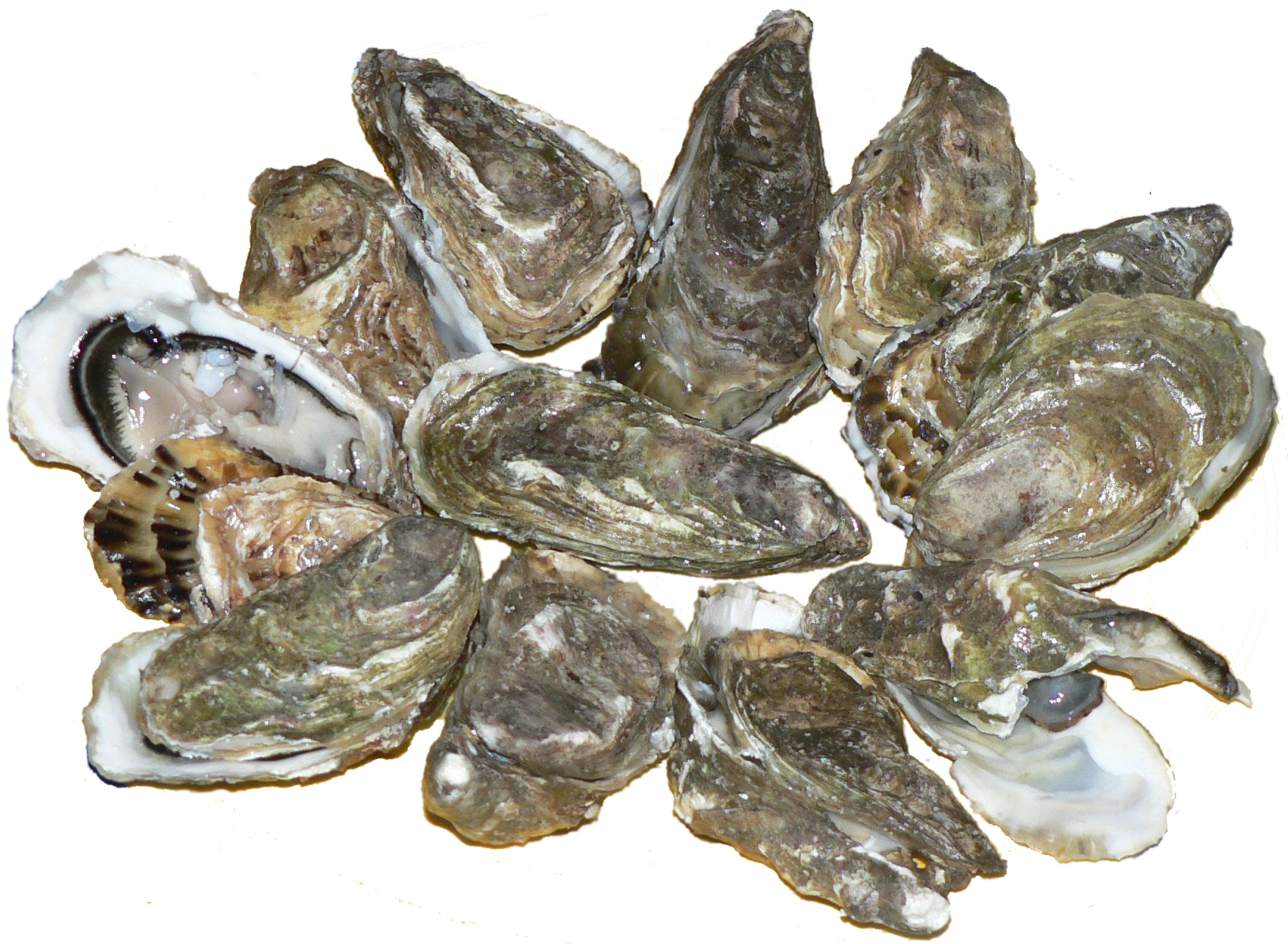 Modification of a picture by David Monniaux